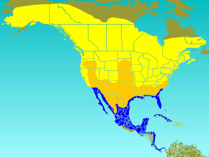 Approximate range/distribution map of the Tree Swallow (Tachycineta bicolor). In keeping with WikiProject: Birds guidelines, the yellow area on the map indicates the summer-only range, the blue area indicates the winter-only range, green indicates the year-round range, and orange indicates areas on the map that the species will pass through during migratory periods.